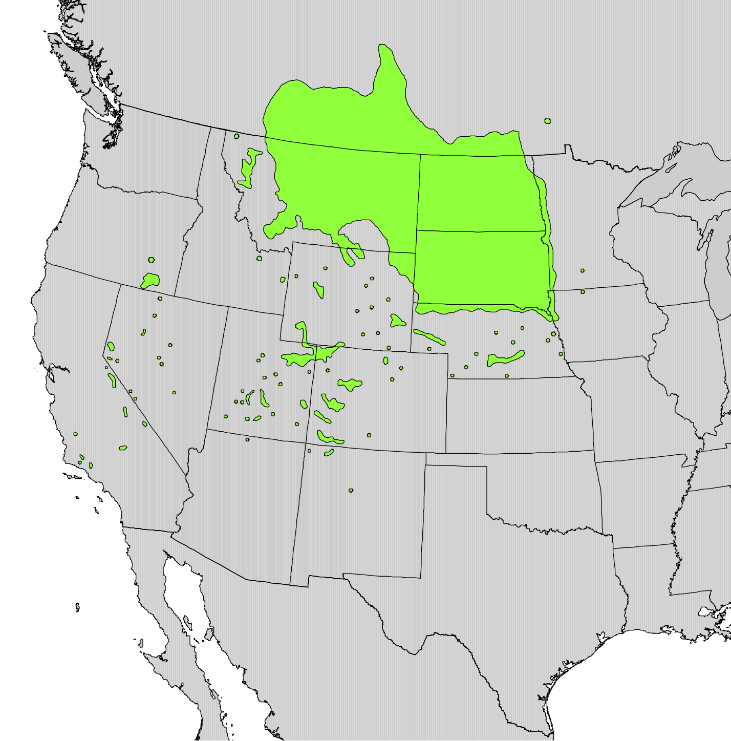 Range map of Shepherdia argentea — Silver buffaloberry. Species of North America, in the Elaeagnaceae Family.